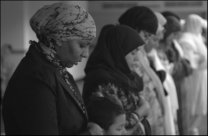 Women praying dhuhr (on jummah) at the Islamic Society of Akron & Kent "Women pray during Friday noonday prayer at the mosque. This one's an older shot."